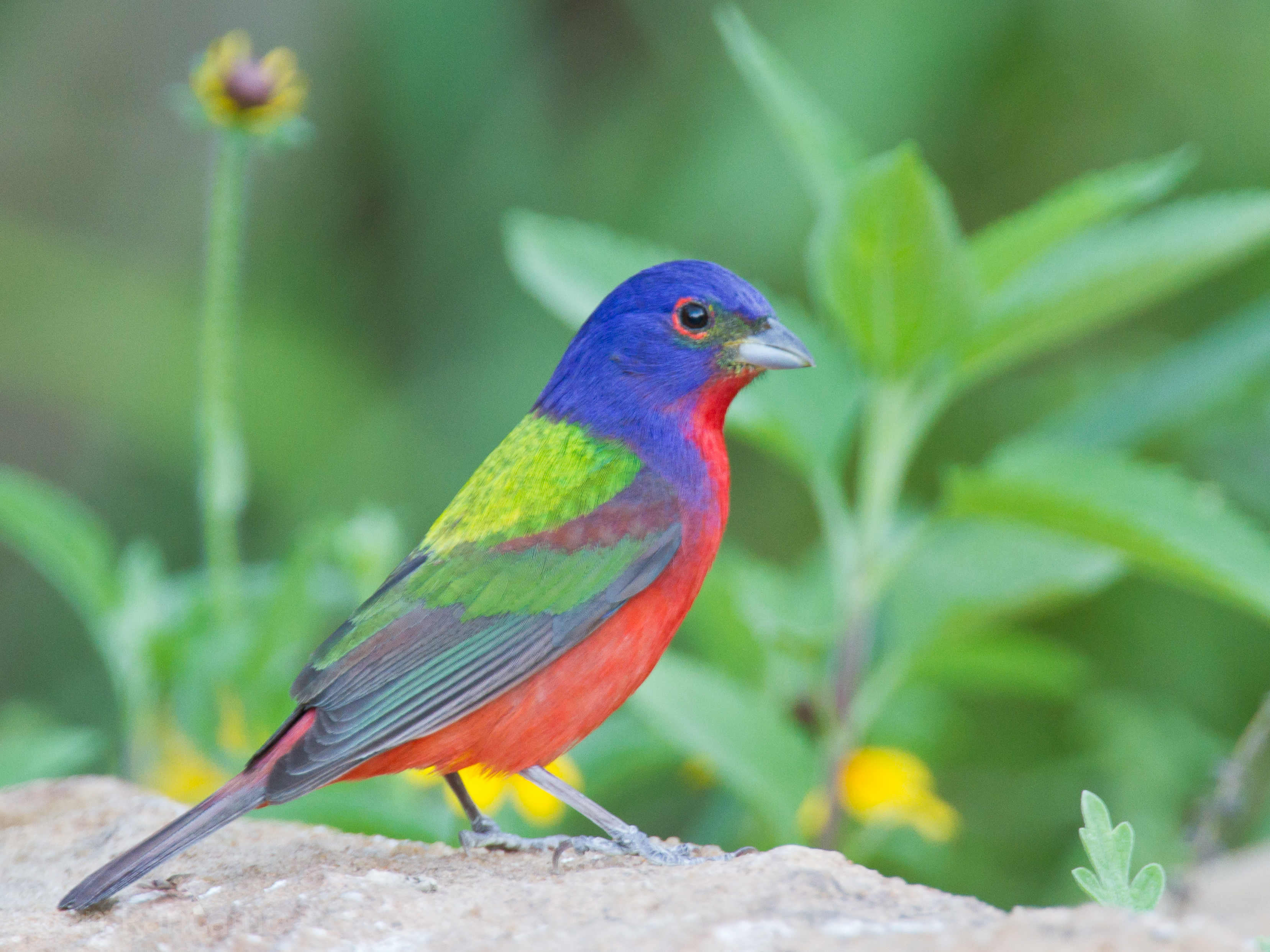 Painted Bunting, Freeport, Texas